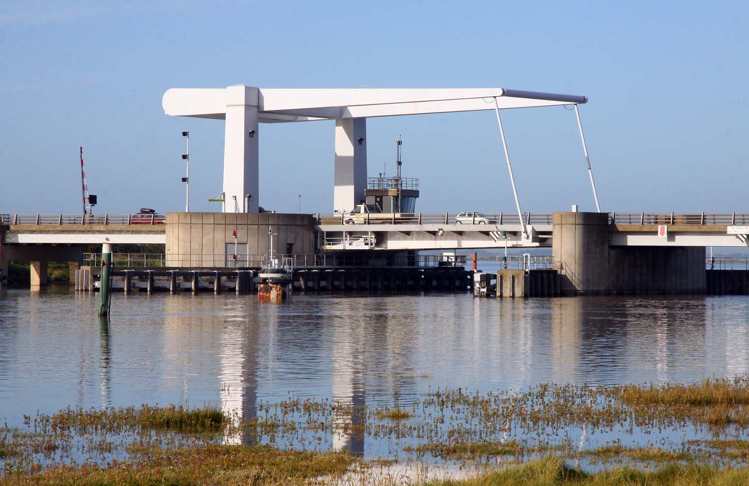 Breydon Bridge, Data from Geograph: Description: TG5108 :: Breydon Bridge, near to Great Yarmouth, Norfolk, Great Britain ICBM: 52.61162571422, 1.7149304267708 Location: (about 1 km from) near to Great Yarmouth, Norfolk, Great Britain.